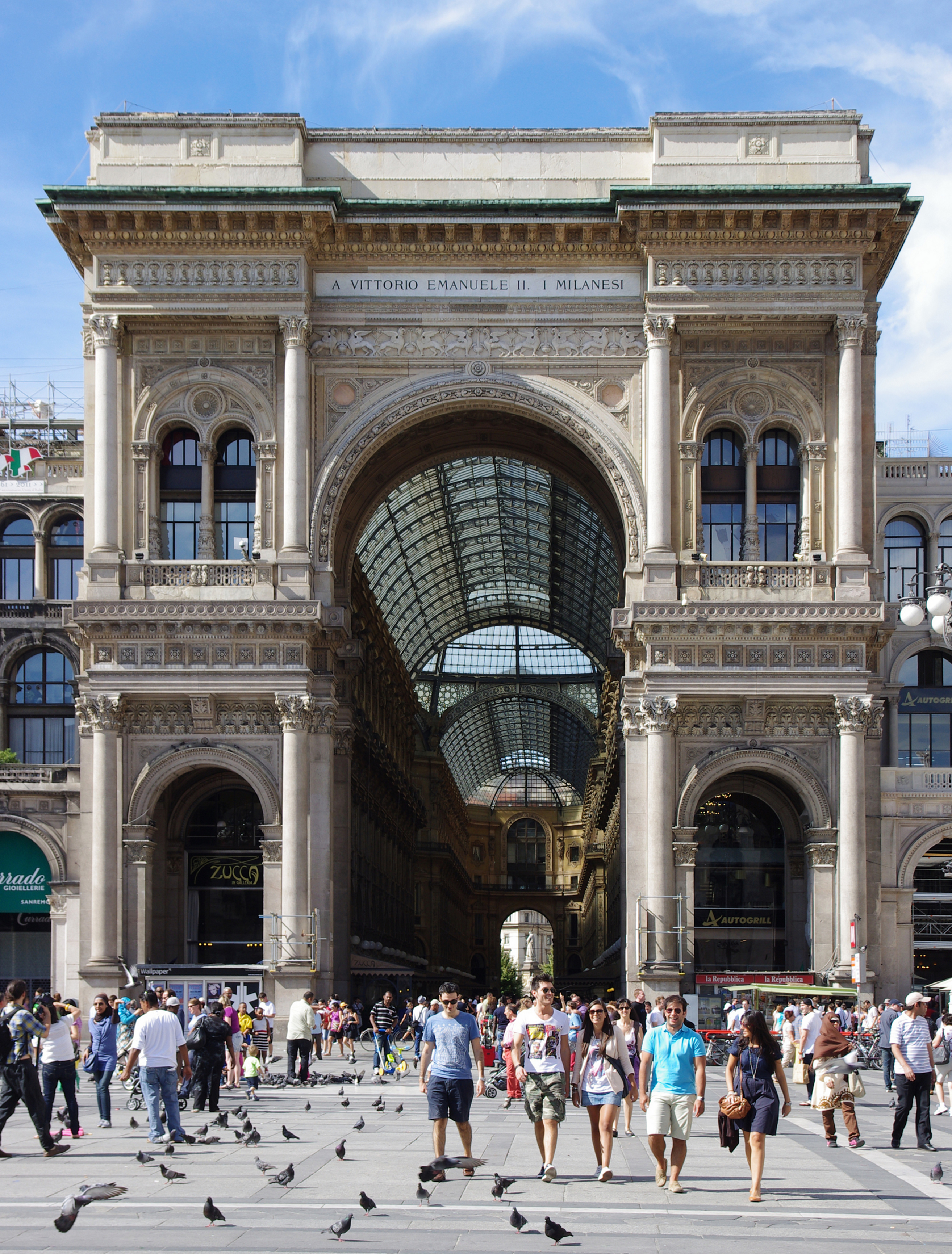 Triumphal arch of Gallery Vittorio Emanuele II in Milan